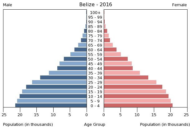 The population pyramid of Belize illustrates the age and sex structure of population and may provide insights about political and social stability, as well as economic development. The population is distributed along the horizontal axis, with males shown on the left and females on the right. The male and female populations are broken down into 5-year age groups represented as horizontal bars along the vertical axis, with the youngest age groups at the bottom and the oldest at the top. The shape of the population pyramid gradually evolves over time based on fertility, mortality, and international migration trends.